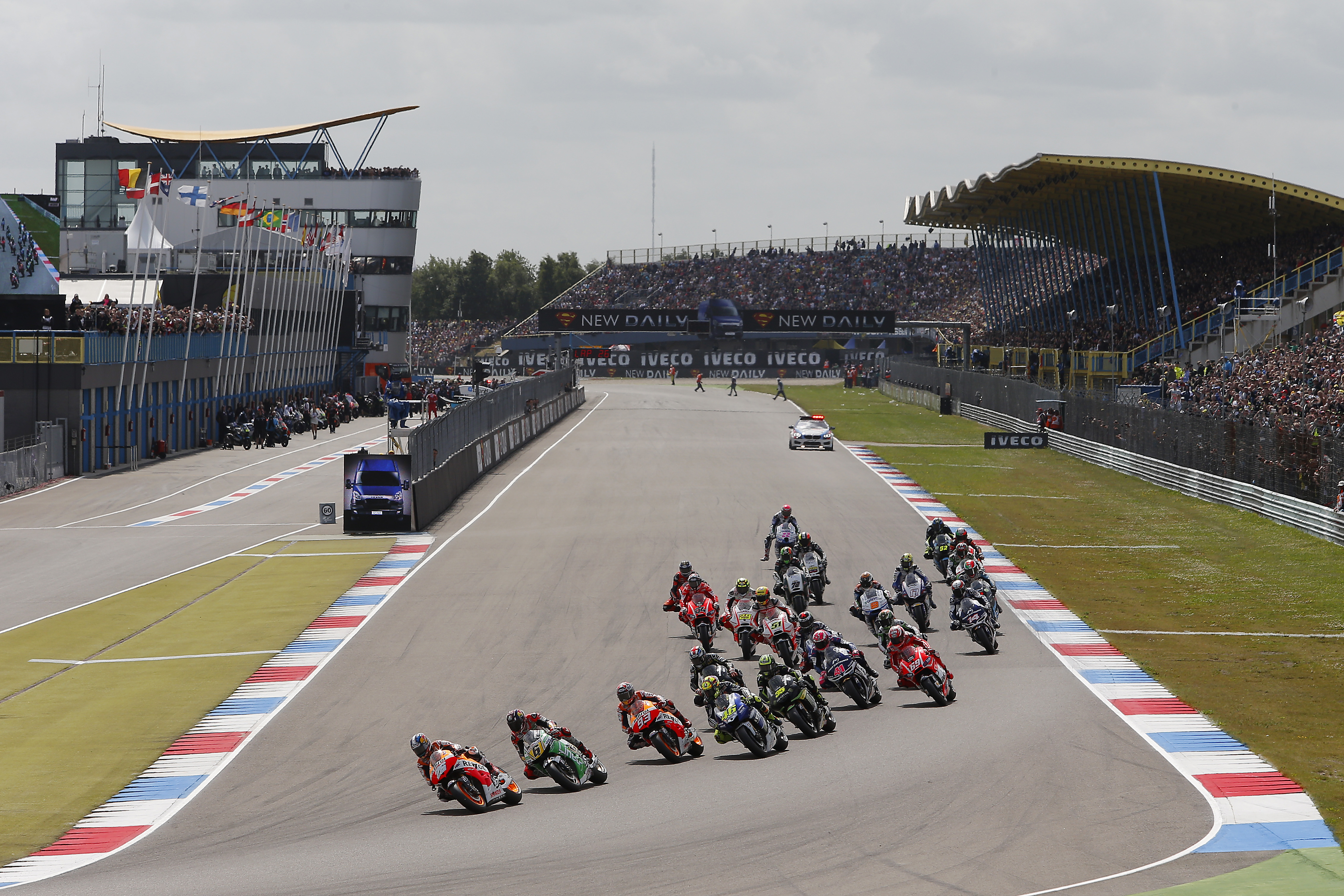 Dani Pedrosa, riding his Repsol Honda, leading the pack on the opening lap of the 2013 Dutch TT in Assen.